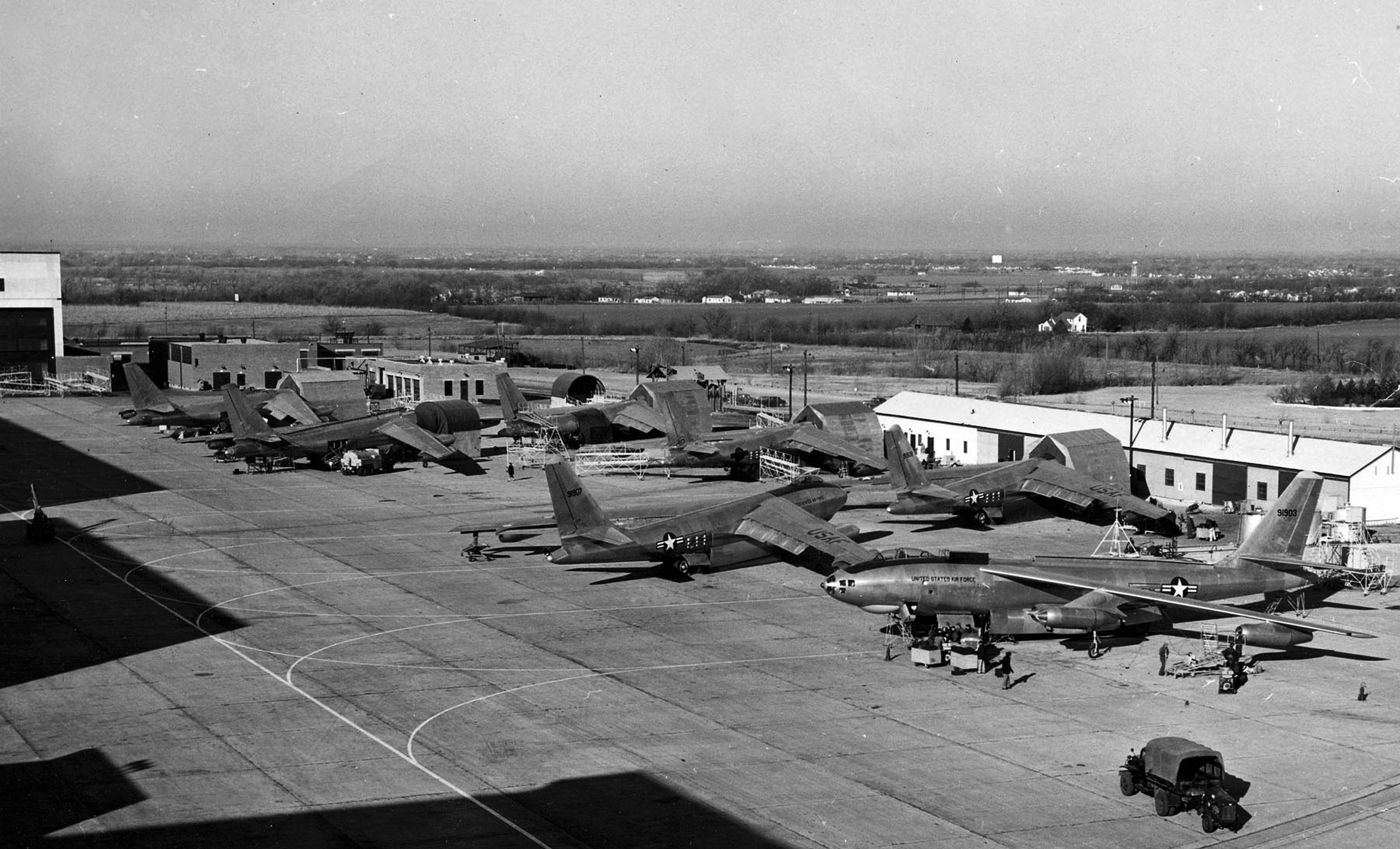 Seven parked B-47As at the Boeing Airplane Co. Plant II, North Apron, Wichita, Kan., on Jan. 26, 1951. The three closest aircraft are S/N 49-1903, 49-1907 and 49-1909.